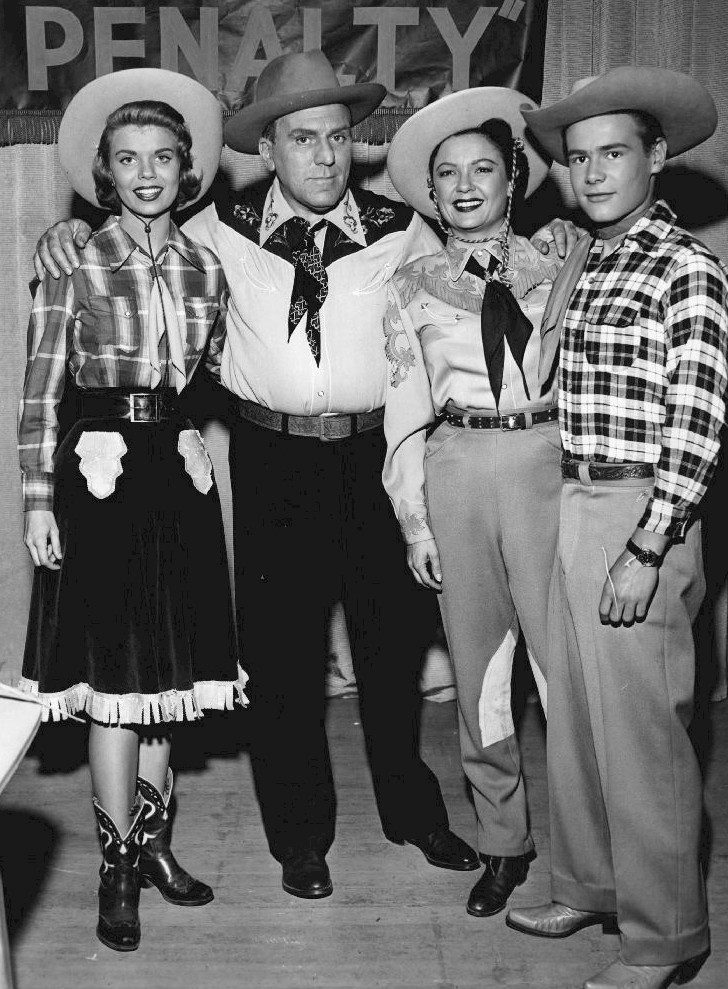 Cast photo of the Riley family from the television show The Life of Riley. Pictured from left: Lugene Sanders (Riley's daughter, Babs), William Bendix (Chester A. Riley), Marjorie Reynolds (wife Peg), Wesley Morgan (son Junior).